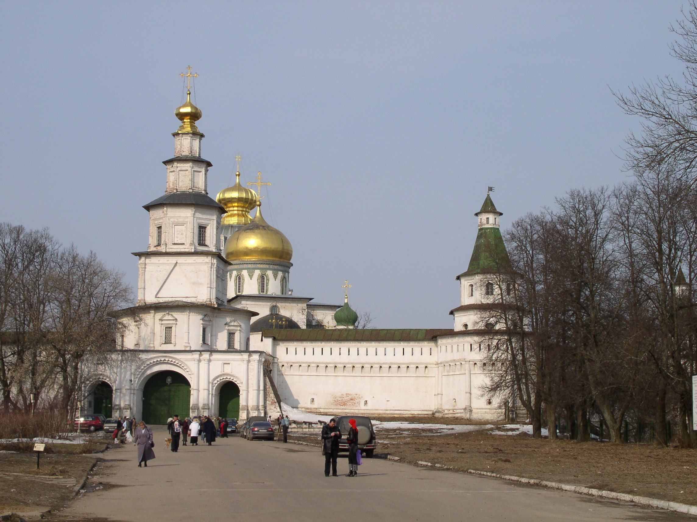 Gate and cathedral of the New Jerusalem monastery in Istra, Russia